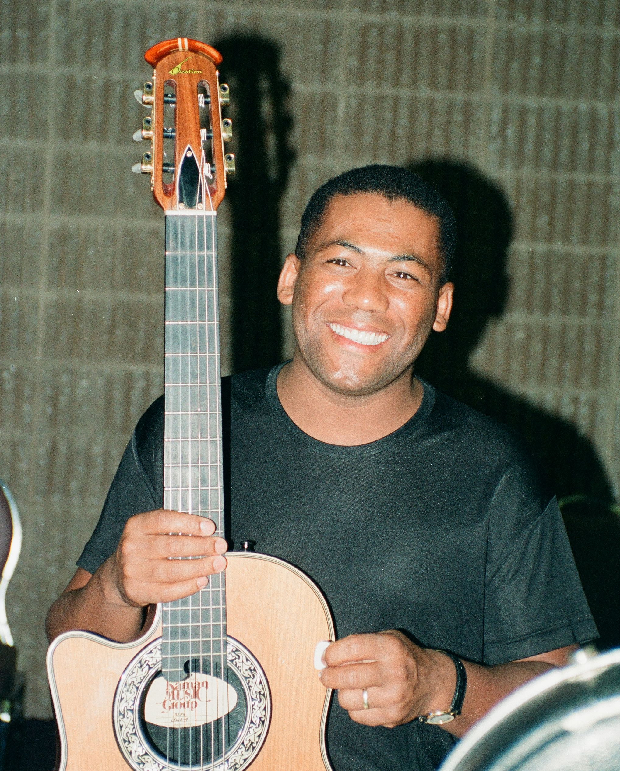 From Wash. D.C. 1996